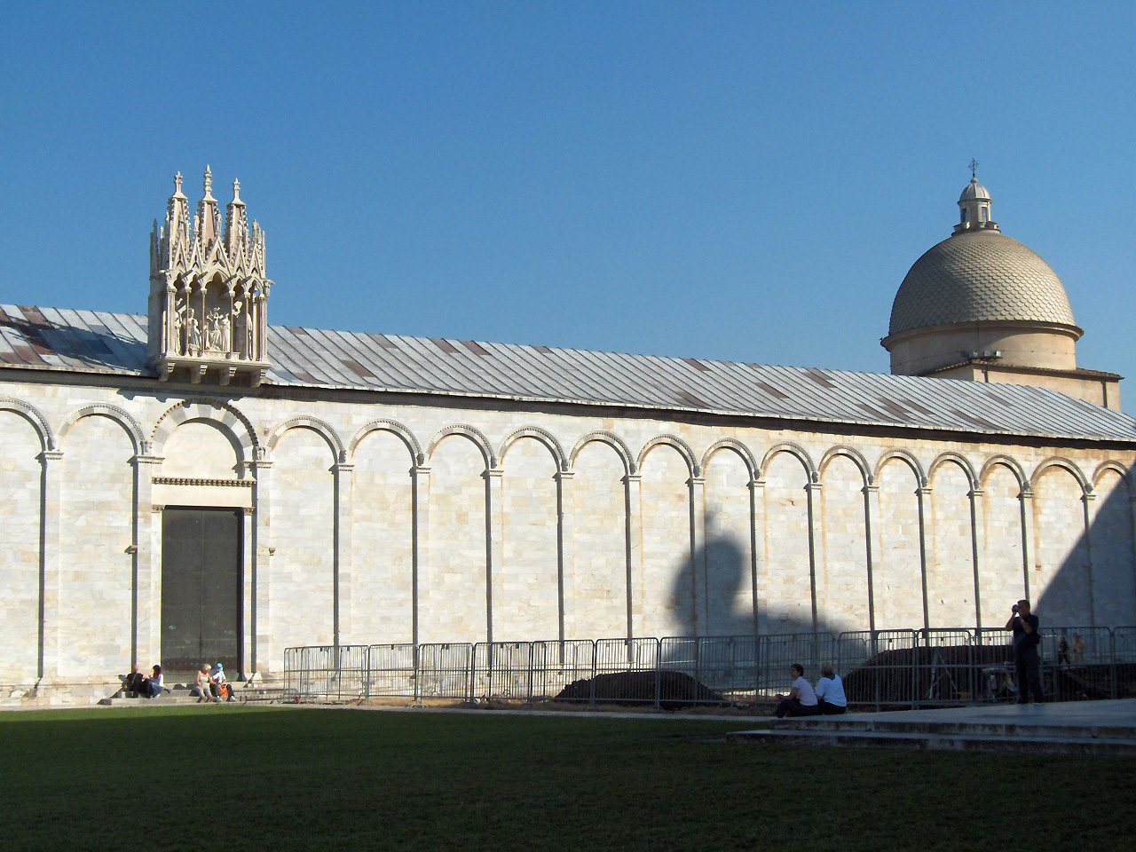 Pisa, Italy - Camposanto Monumentale with gothic tabernacle Own work - photo taken by Georges Jansoone on 10 October 2005